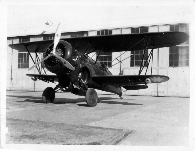 1930s Hawk III of China Air Force.